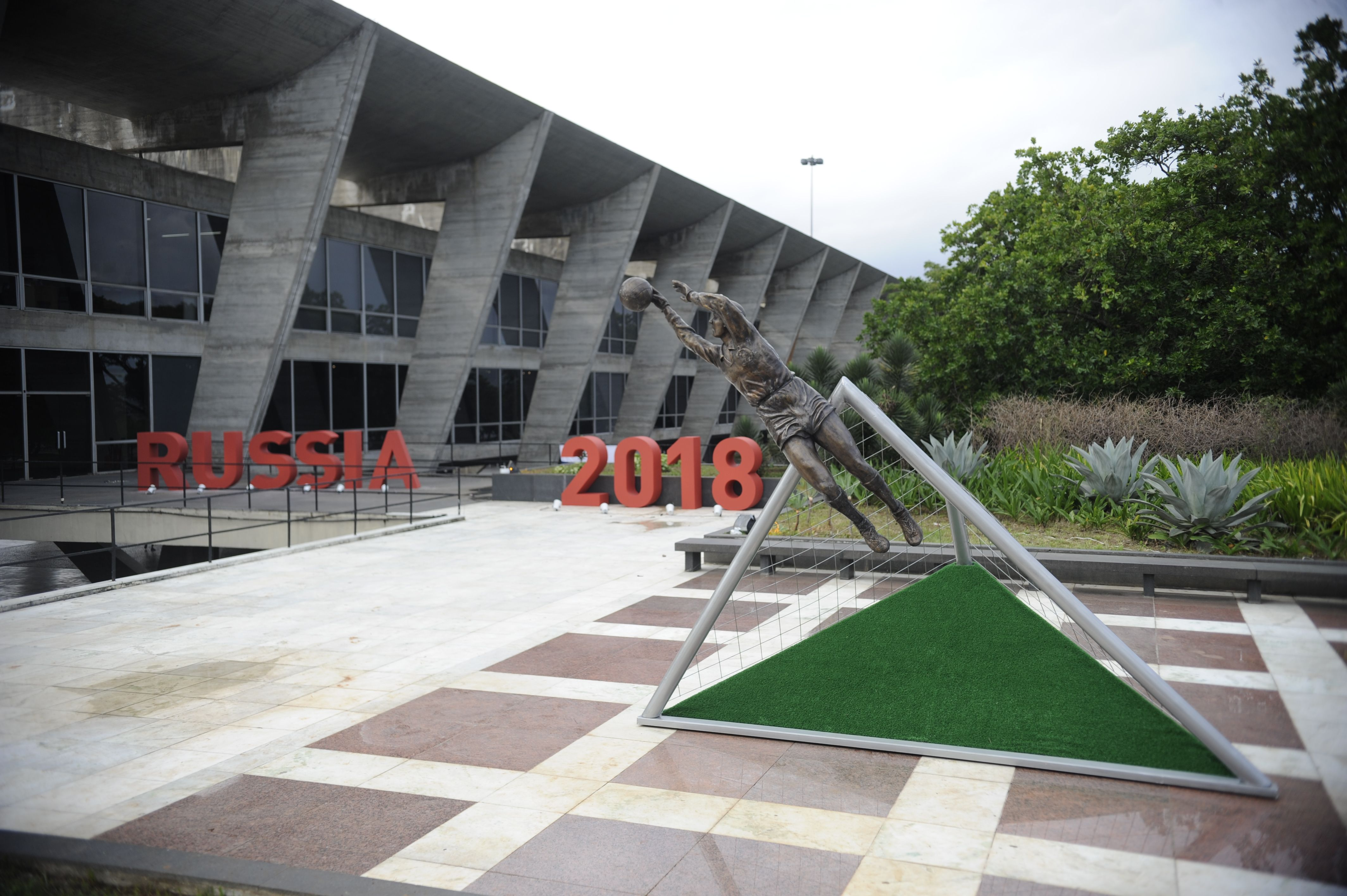 Opening the Russia House in Rio